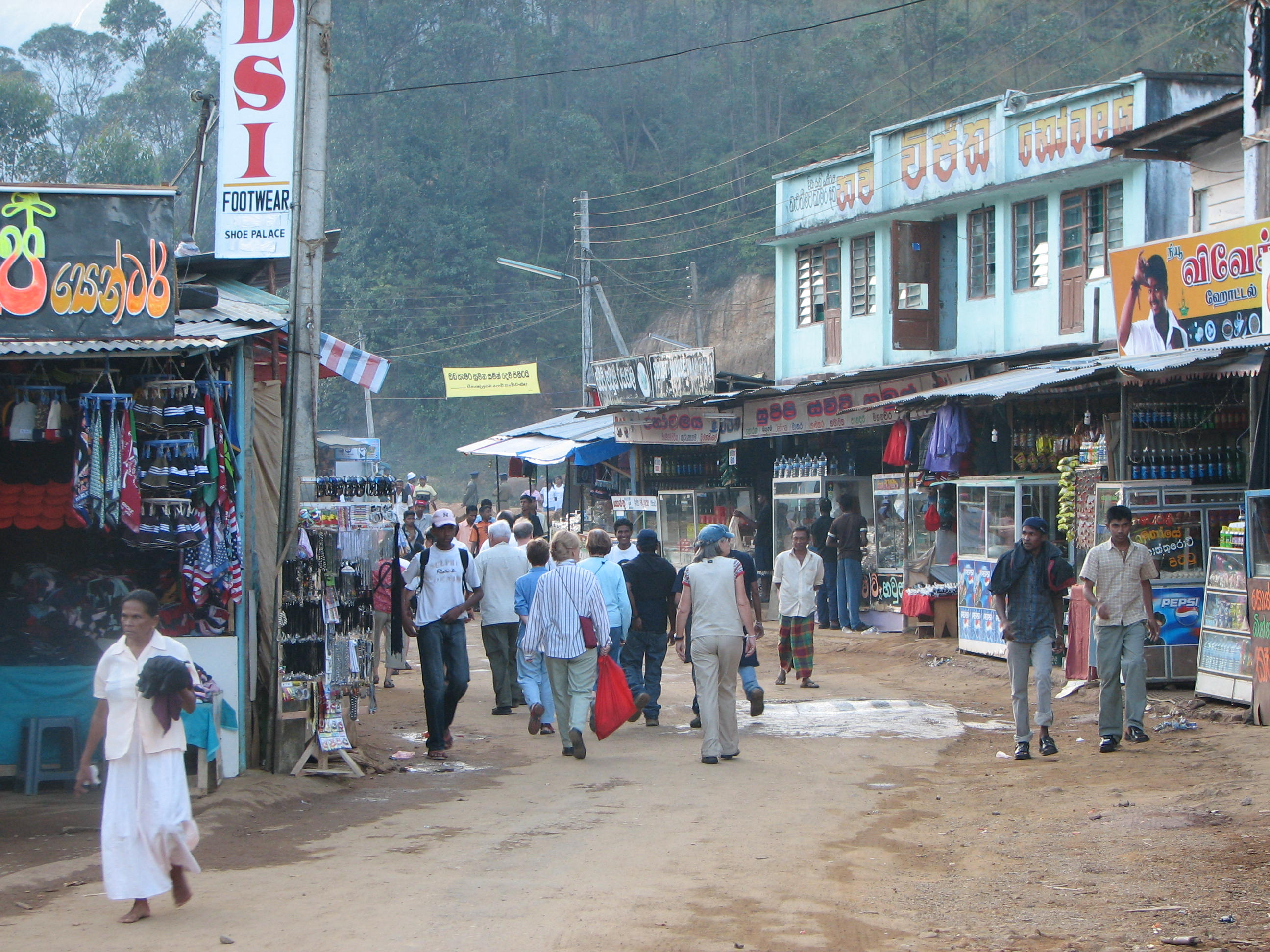 Maskeliya, near Adam's Peak, Sri Lanka